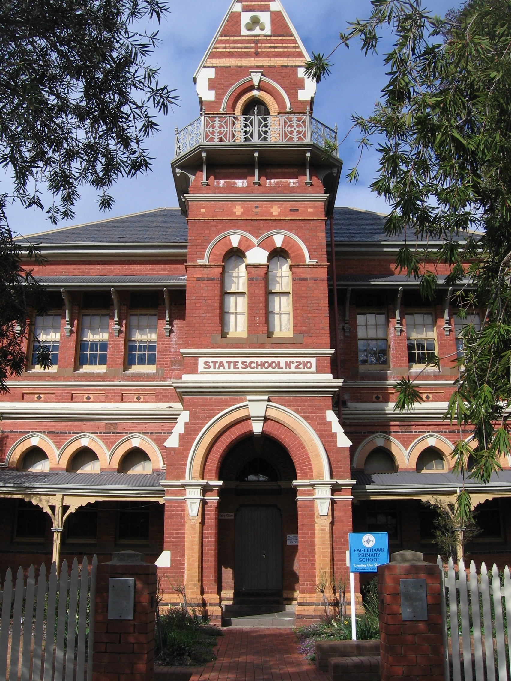 State primary school at Eaglehawk, Victoria